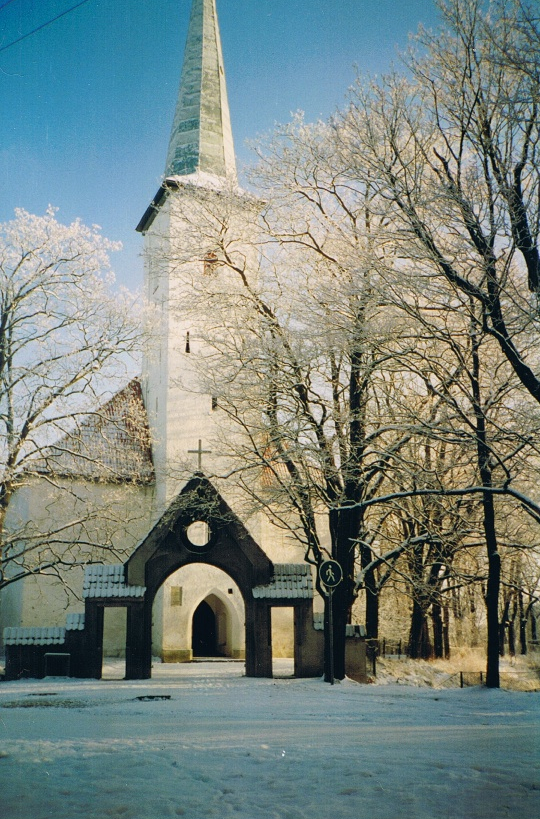 Jõhvi St. Michaels Church, Estonia